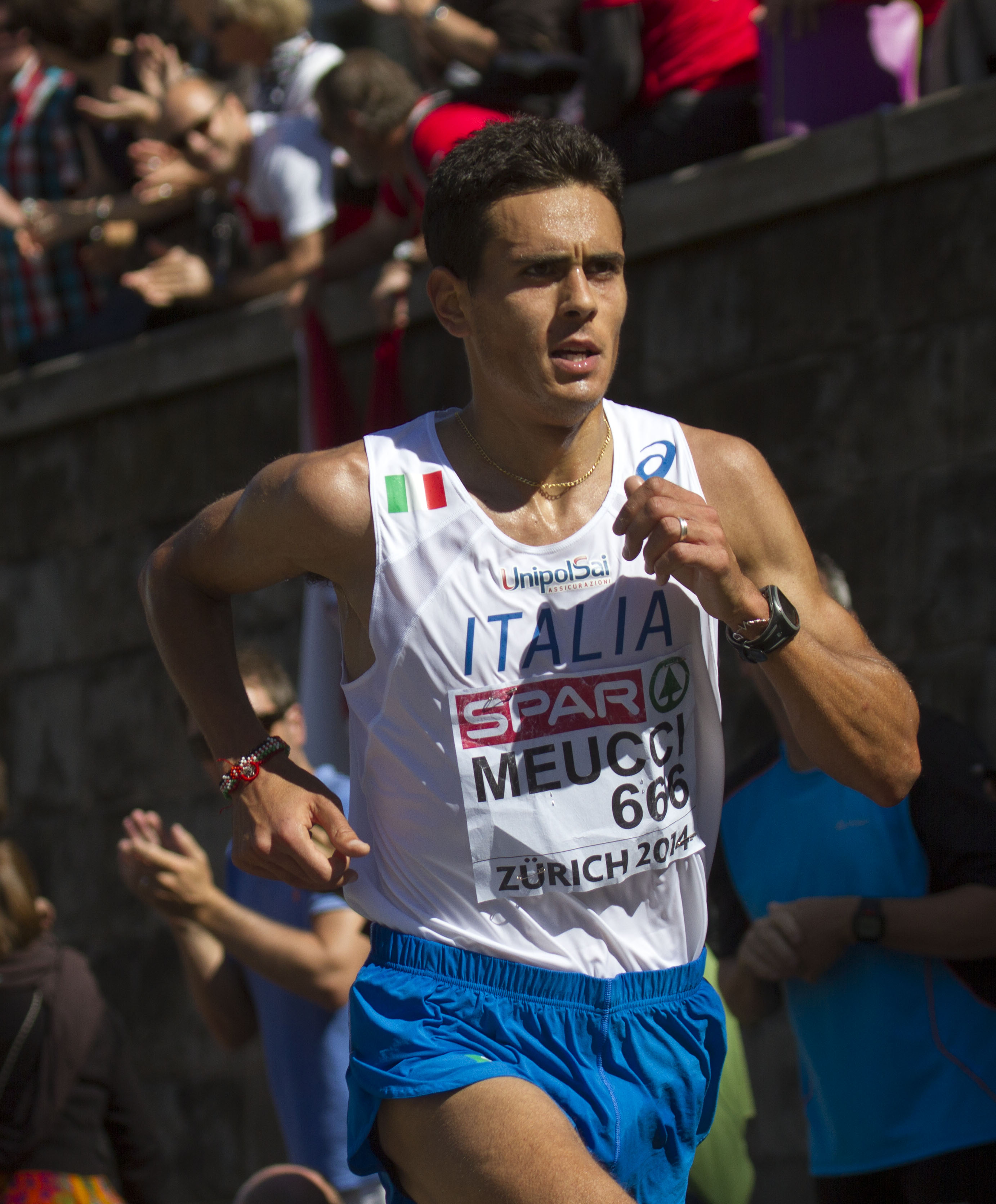 990476 marathon winnaar meucci